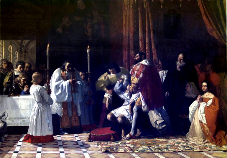 size 3.44x4.88 meter